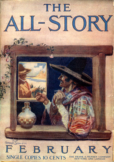 All-Story Weekly, February 1912